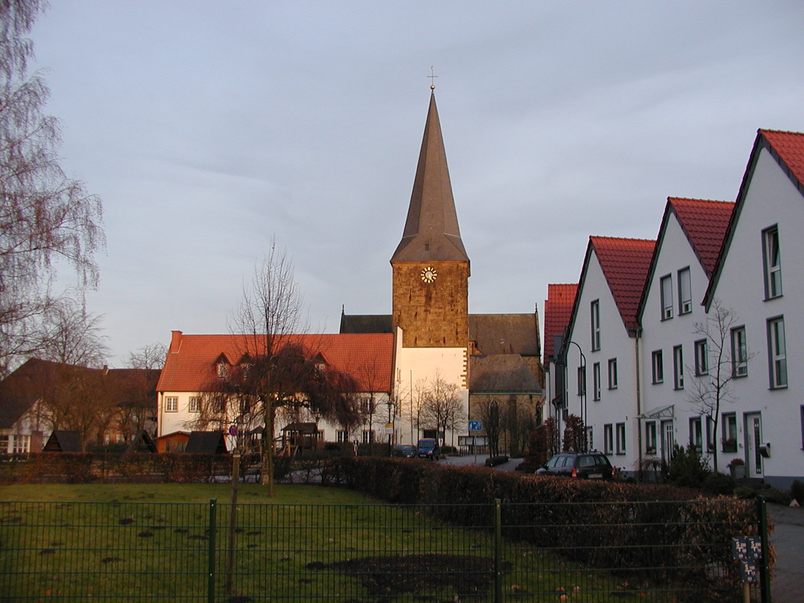 View on St.Christina church in Herzebrock